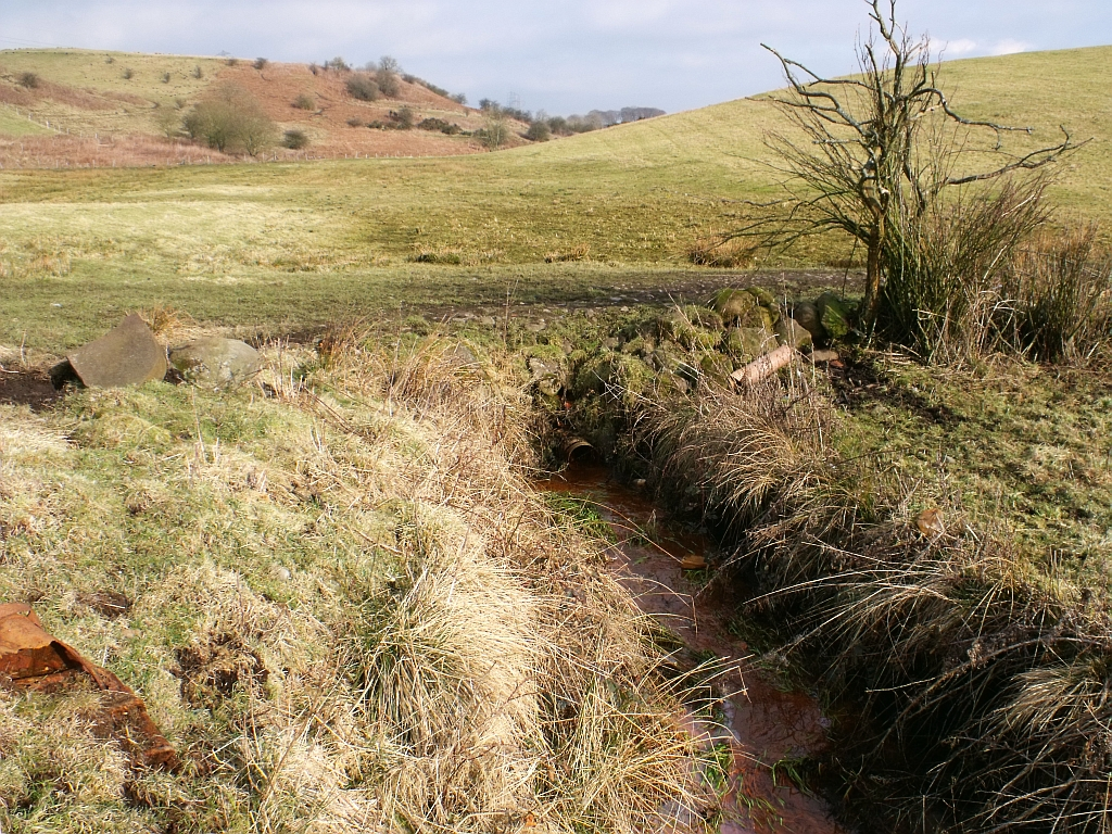 Source of the Kelvin The water in this ditch - discoloured by ochre - can be seen to be flowing (slowly) out of an agricultural drainage pipe - draining the fields known as the 'Meadows' to Bantonians. This is the highest point of water that constitutes the burn then water and finally river Kelvin - it can safely then be claimed to be the source of that river. Bill Gracie, a life long Bantonian in his History of Banton, published in 1995 has this to say on the subject. "The river Kelvin rises in Banton from a marshy area near Lammerknowes (farm, now demolished) from where it flows beneath the tennis courts and the village before turning south and passing under the parish church grounds on its way to Kelvihead where it is piped under the A803." See related photo Let there be no more claims of this river rising in Dullatur bog.